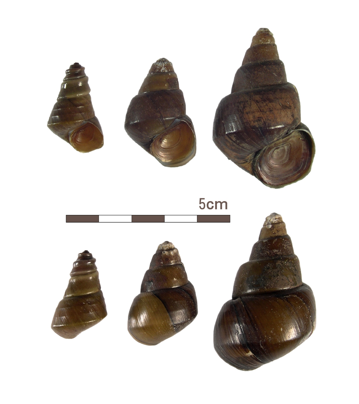 Heterogen longispira (Smith, 1886) (Mollusca: Gastropoda: Viviparidae: Bellamyinae), a relatively large species of frehwater snail endemic to Lake Biwa, is the type species of the genus Heterogen Annandale, 1921 and the only member of it. Loc: Lake Biwa, Off Katata, Otsu, Shiga, Honshu, Japan. ナガタニシ（タニシ科）の貝殻。琵琶湖の固有種。（滋賀県大津市堅田の沖で採取された個体）